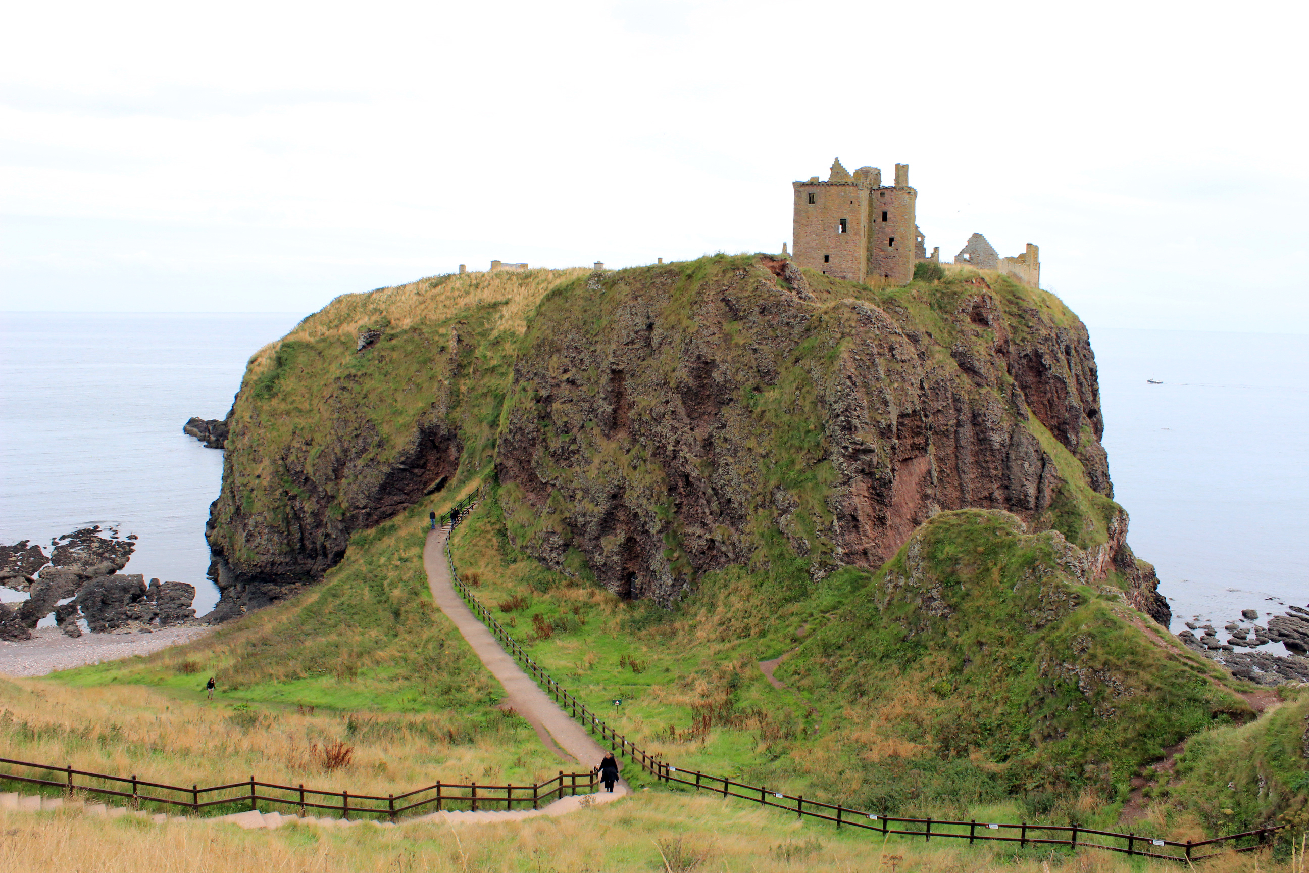 Dunnottar Castle